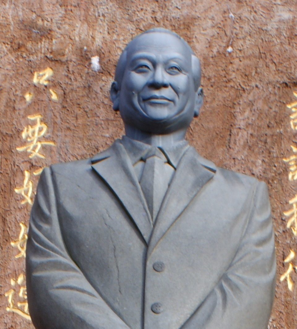 Statue of Lim Goh Tong at Chin Swee temple, Malaysia